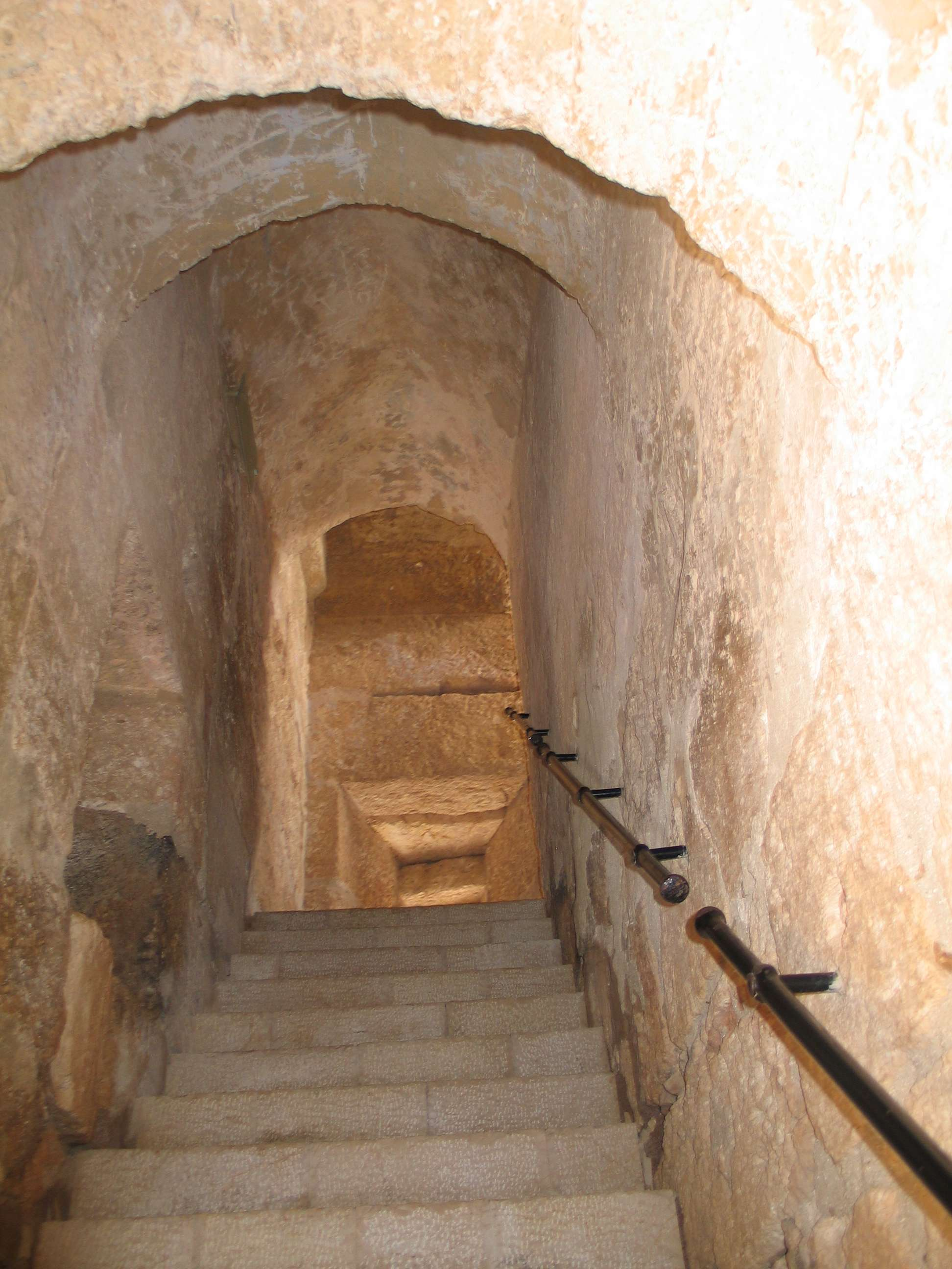 The crusader tower in Tzippori national park, Israel.